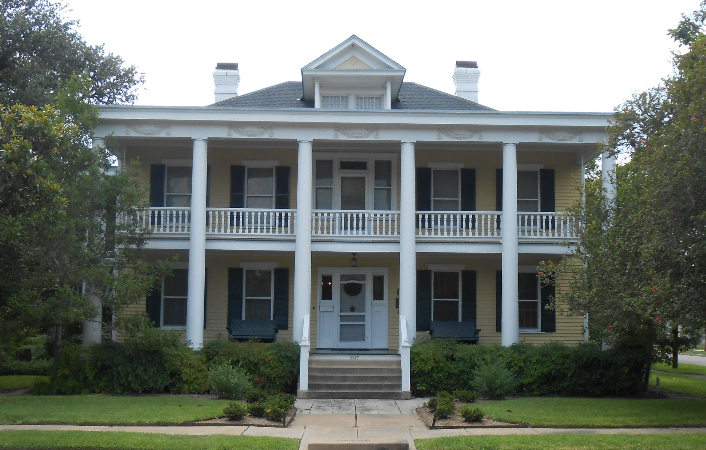 Proctor House, 507 N. Glass Street, Victoria, Texas